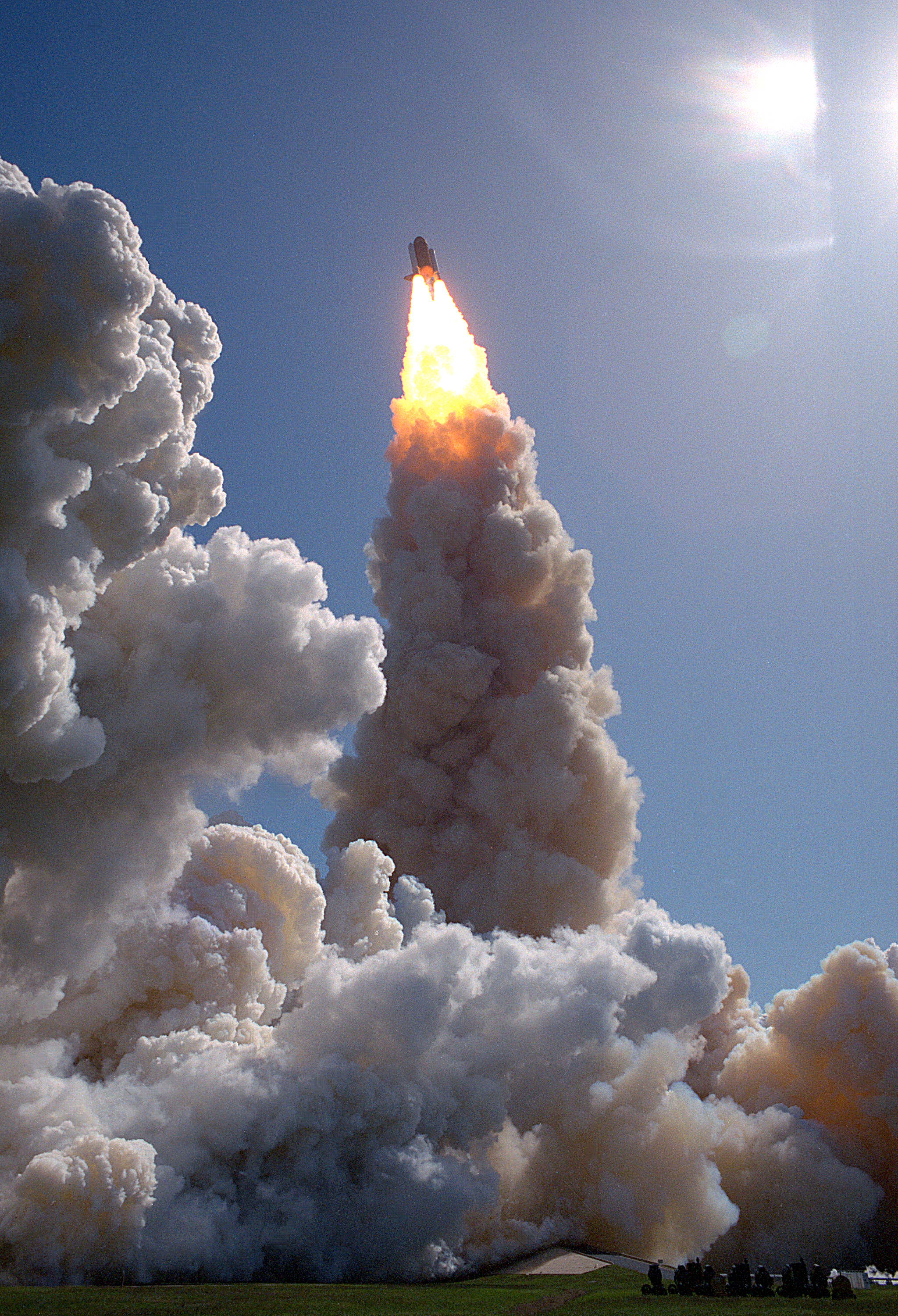 The Space Shuttle Columbia and her crew of six lifted off from PAD 39B at 1:09 p.m. EDT, on a ten-day mission. The primary payload of Space Shuttle mission STS-52 is the Laser Geodynamic Satellite II (LAGEOS II).